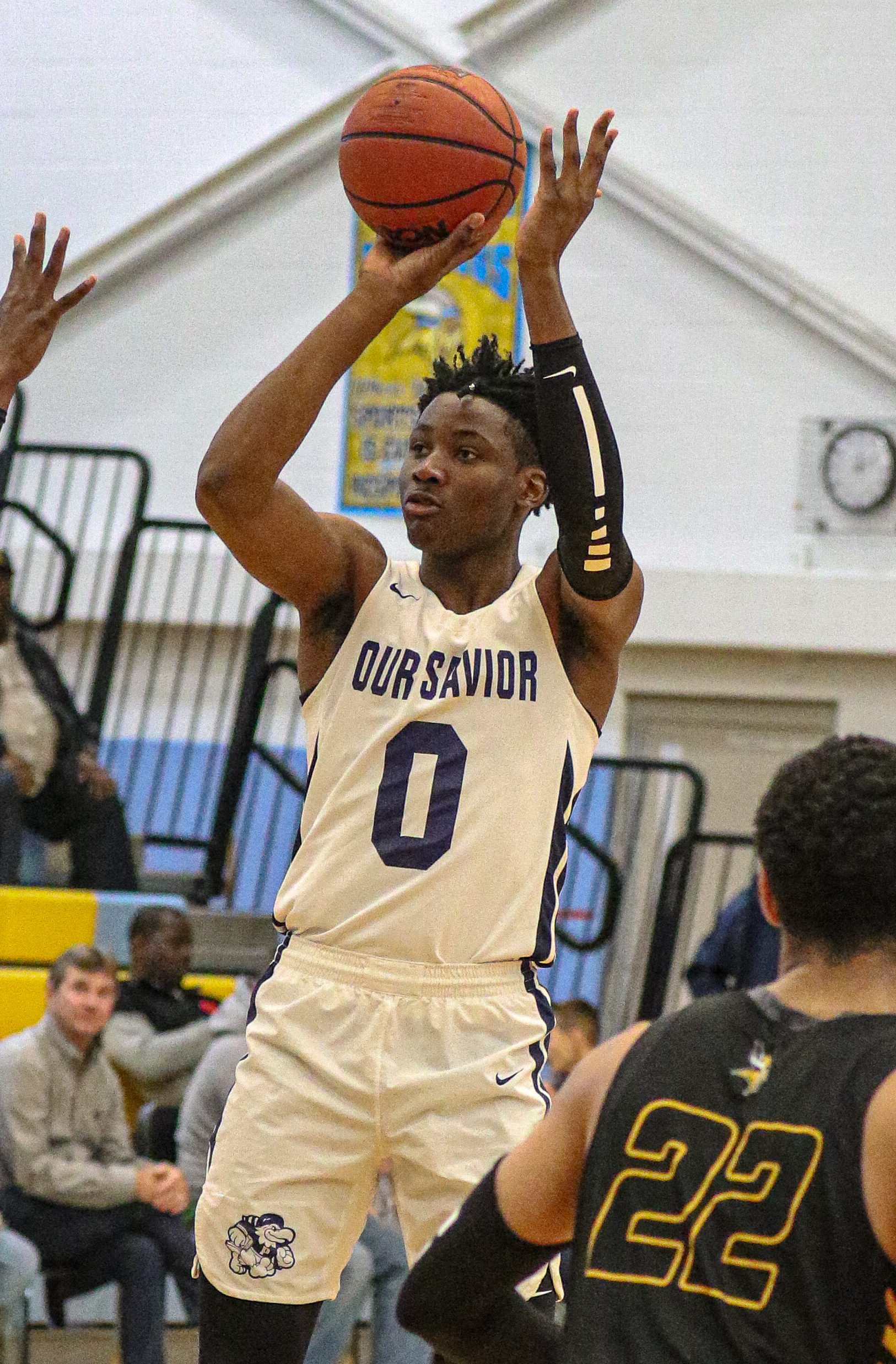 Jonathan Kuminga with Our Savior New American School at Slam Dunk to the Beach in December 2018